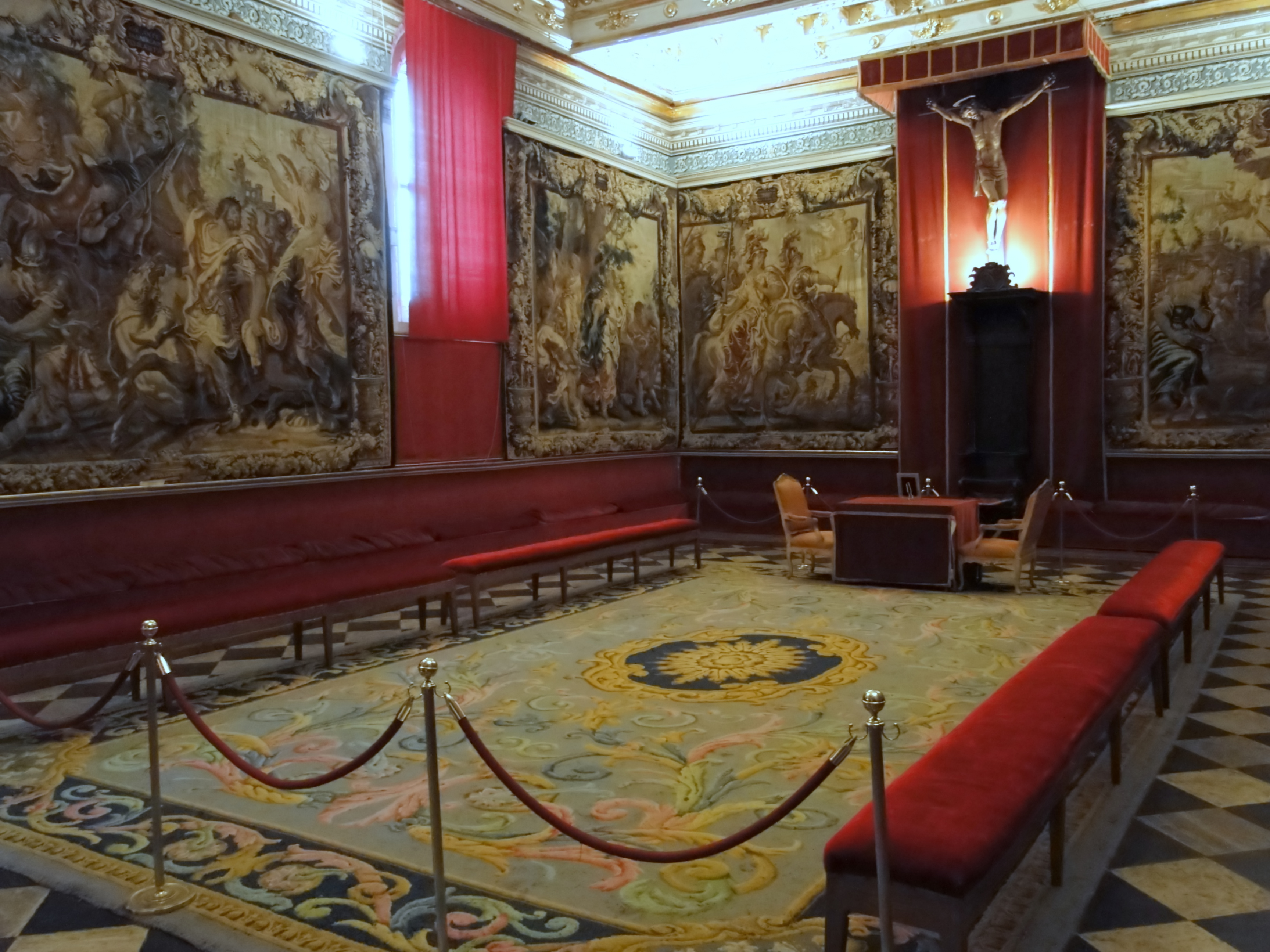 Chapter house of the Cathedral of Segovia, Spain